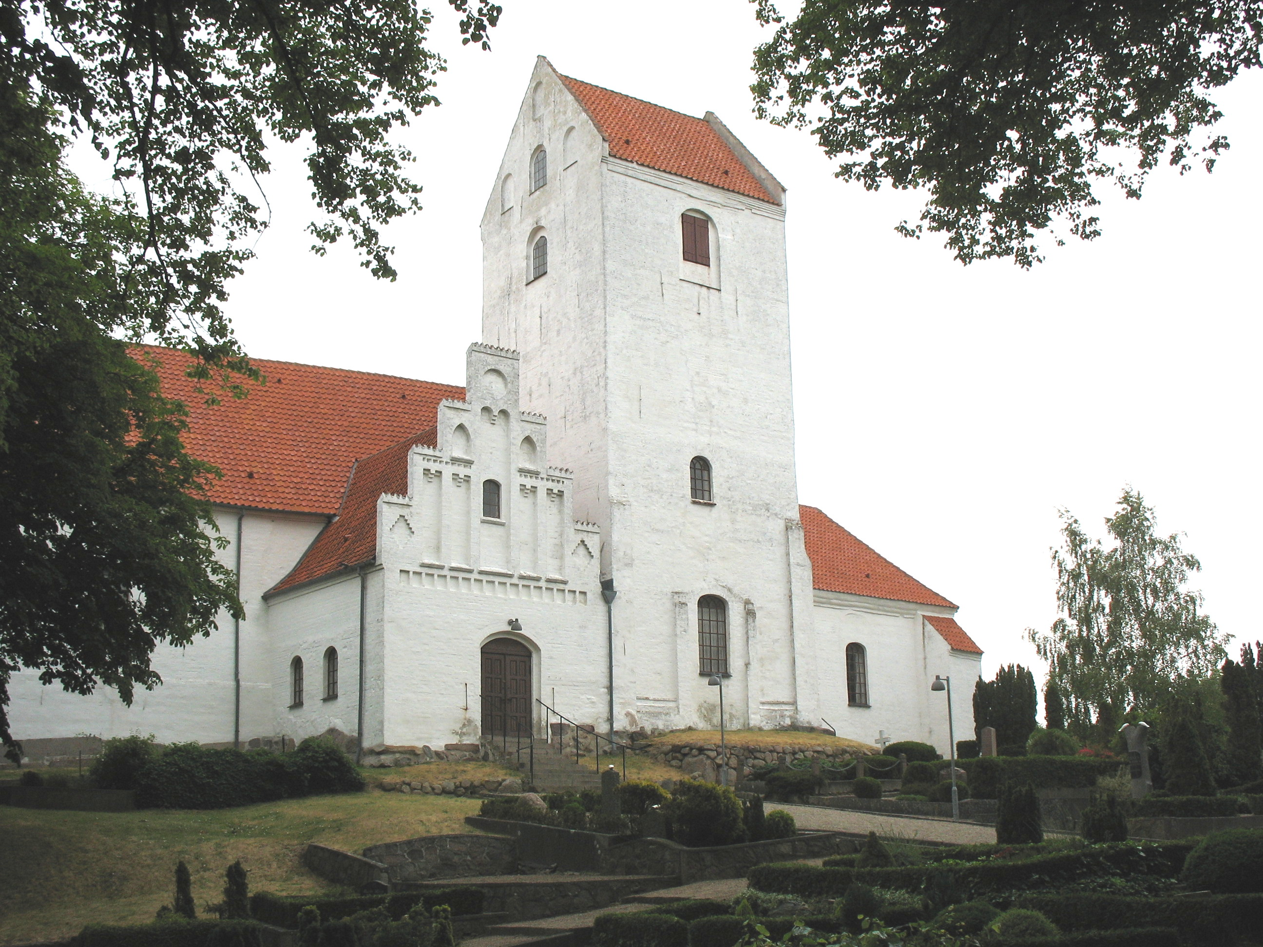 The church "Humble Kirke" near the village "Humble" (at the Danish island Langeland).